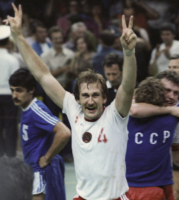 “USSR vs. Yugoslavia”. The 22nd Summer Olympic Games. A handball match between USSR and Yugoslavia. Soviet handball players celebrating their victory. Player #4 Sergei Kushniryuk (left).